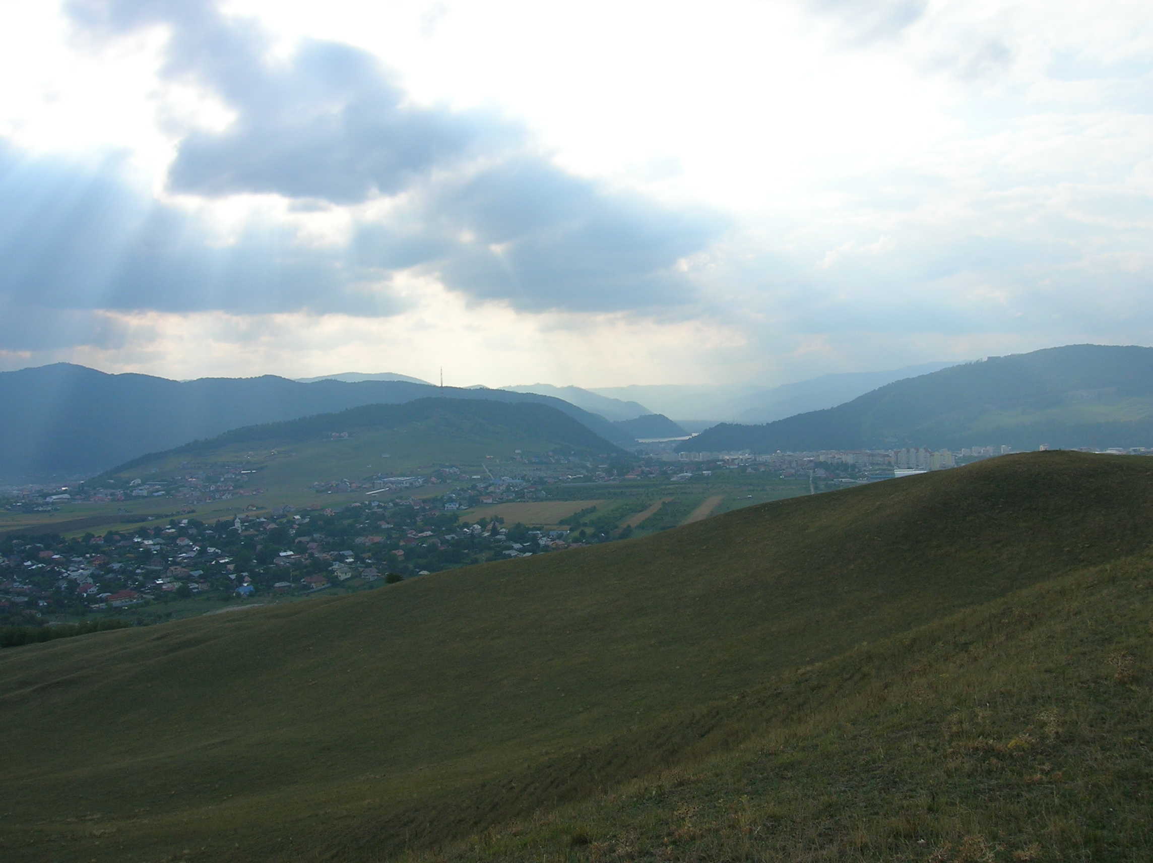 Dealul Vulpii-Boțoaia (Nature Reserve), Neamț county, Romania